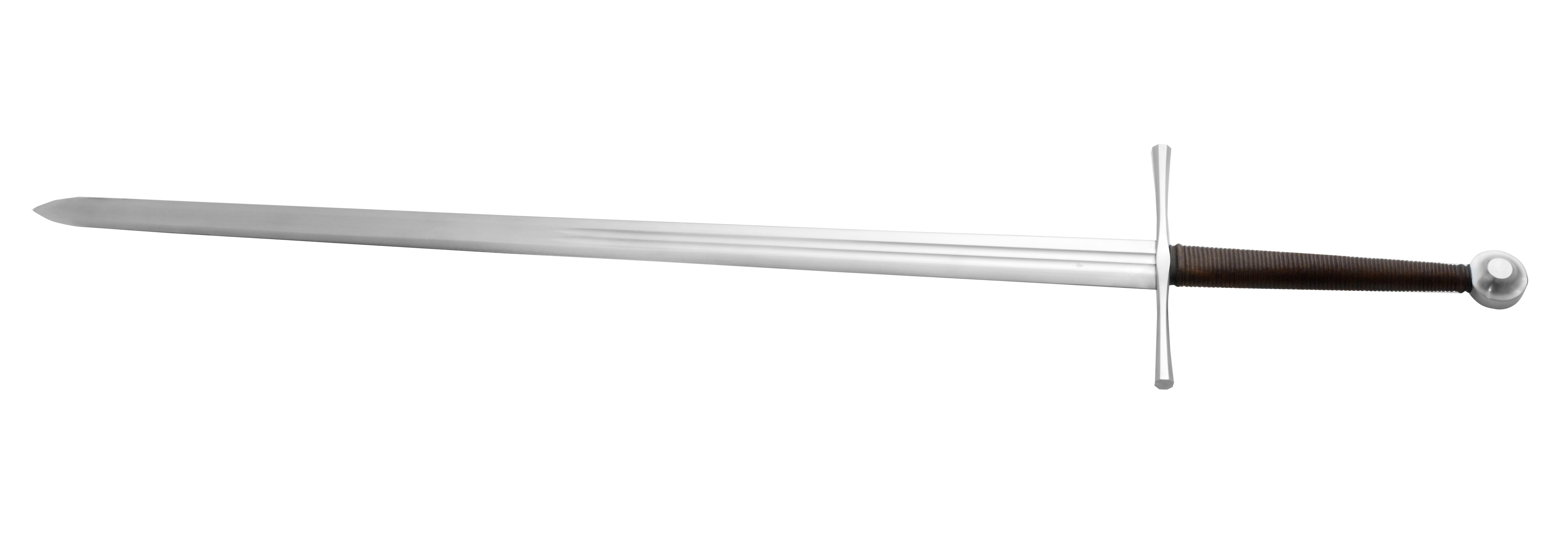 Replica of Albion Arch Duke Two-handed Medieval Sword by Søren Niedziella from Denmark